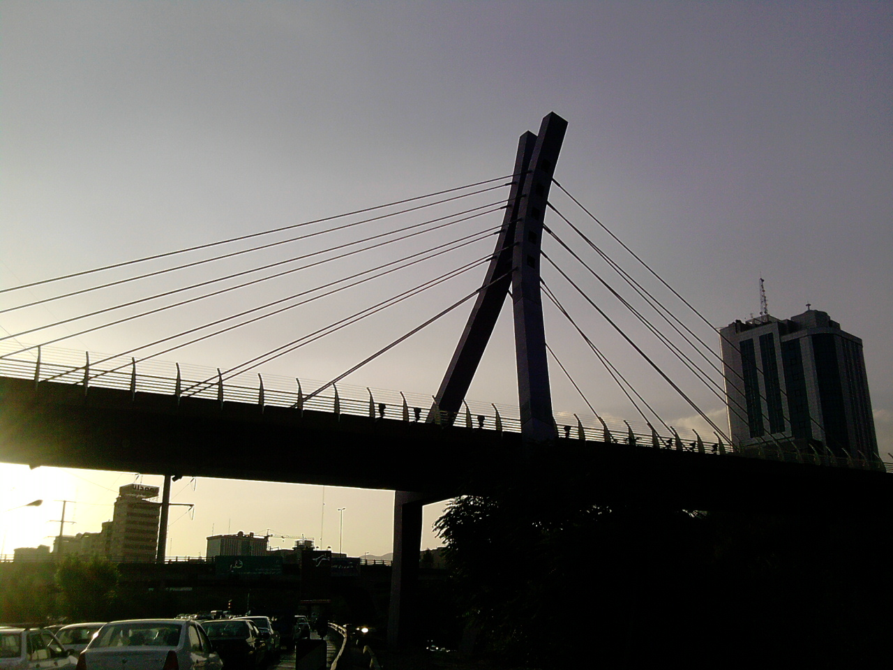 Abrisham Bridge in Tehran